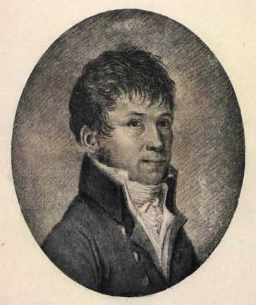 Self-portrait of Andreas Flint